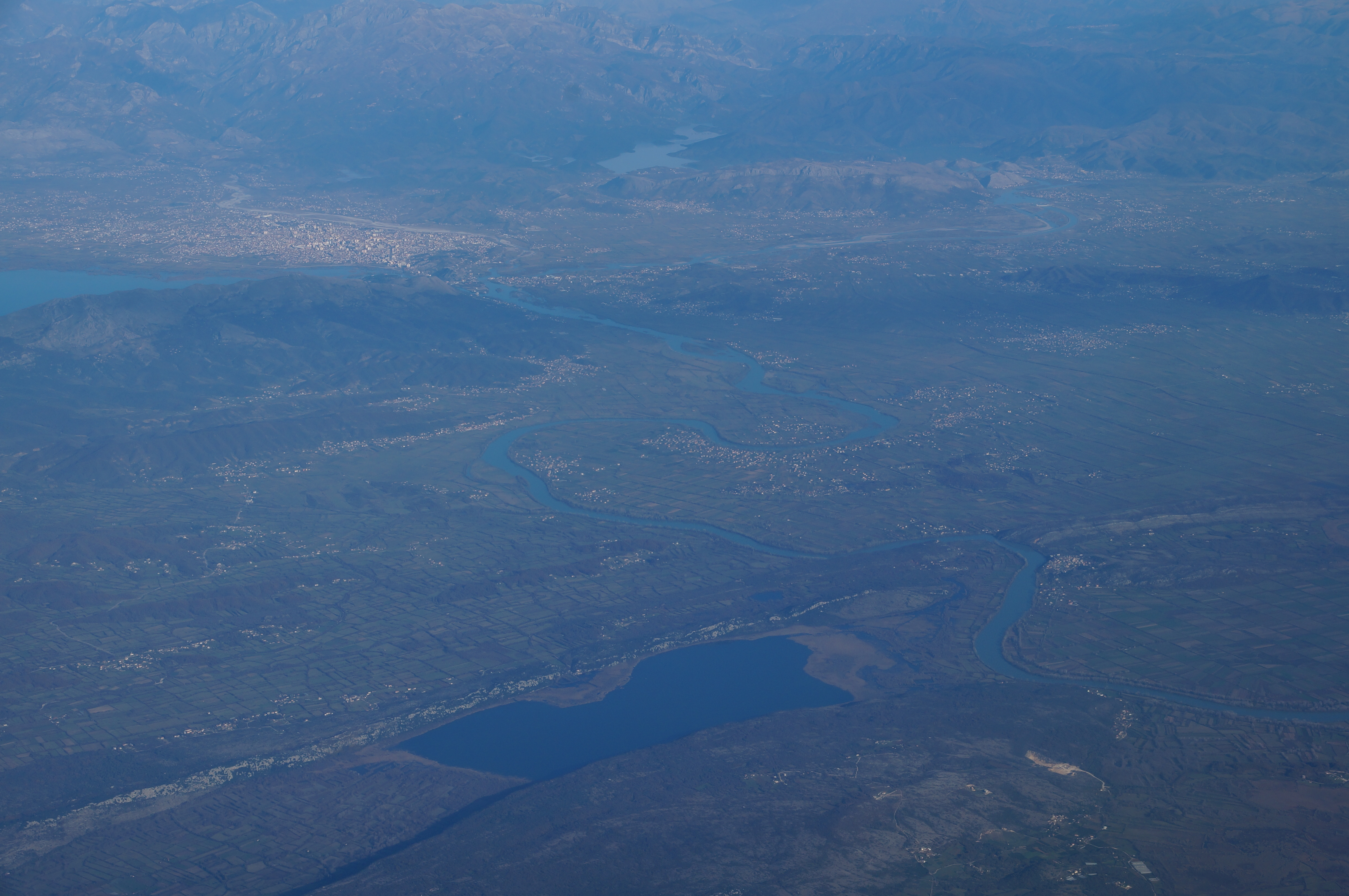 Buna River from the air. Shkodra at the top, Lake Šas at the bottom.